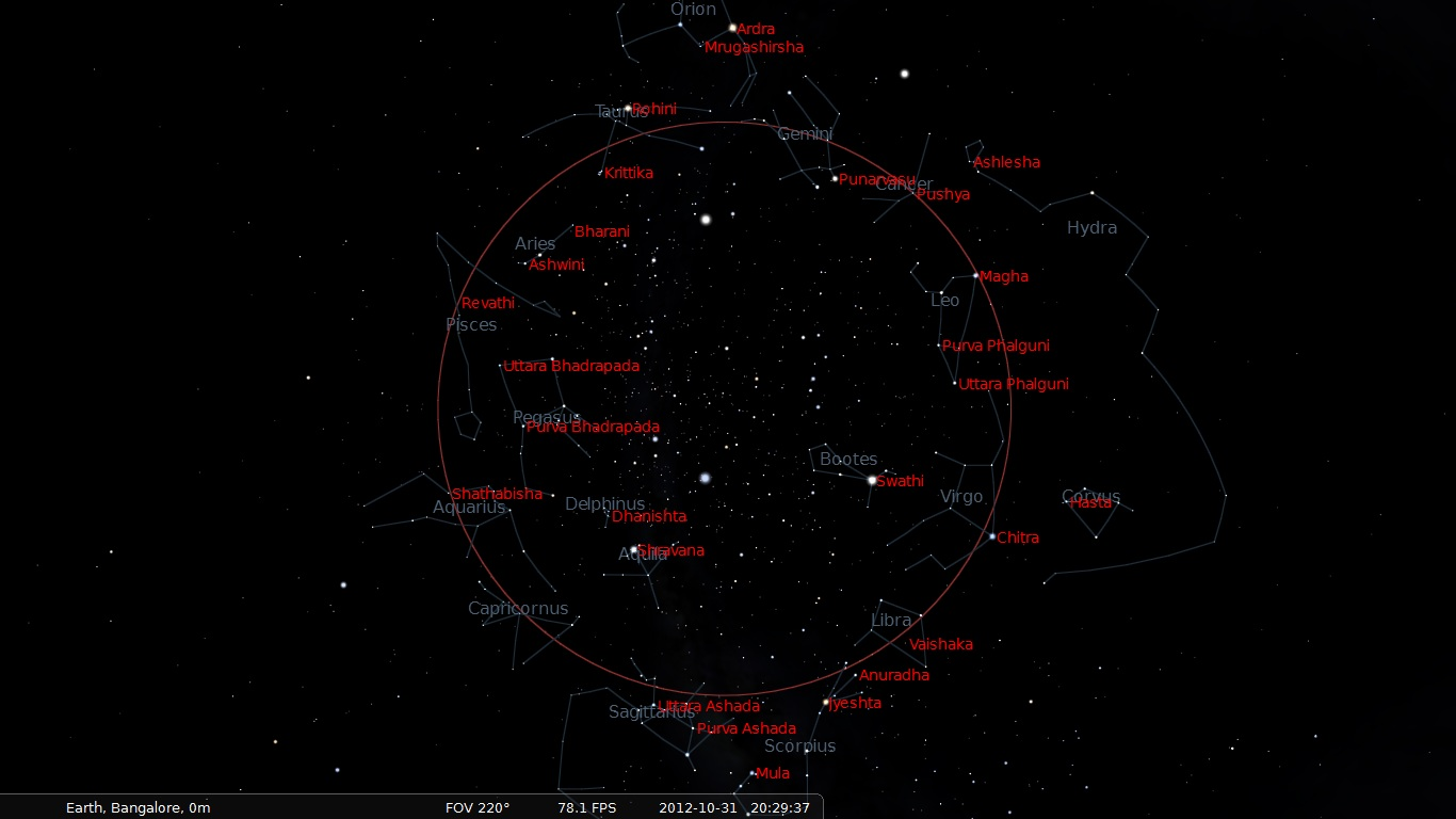 Position of the Hindu Nakshatras as per the coordinates specified in Surya Siddhantha